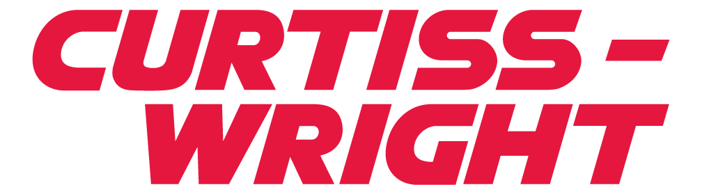 Logo for Curtiss-Wright as of Jan 1, 2014